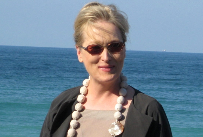 Meryl Streep on the 56th International Film Festival in San Sebastian (Spain)